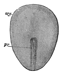 Surface view of embryo of a rabbit. (After KÃ¶lliker.) arg. Embryonic disk. pr. Primitive streak.